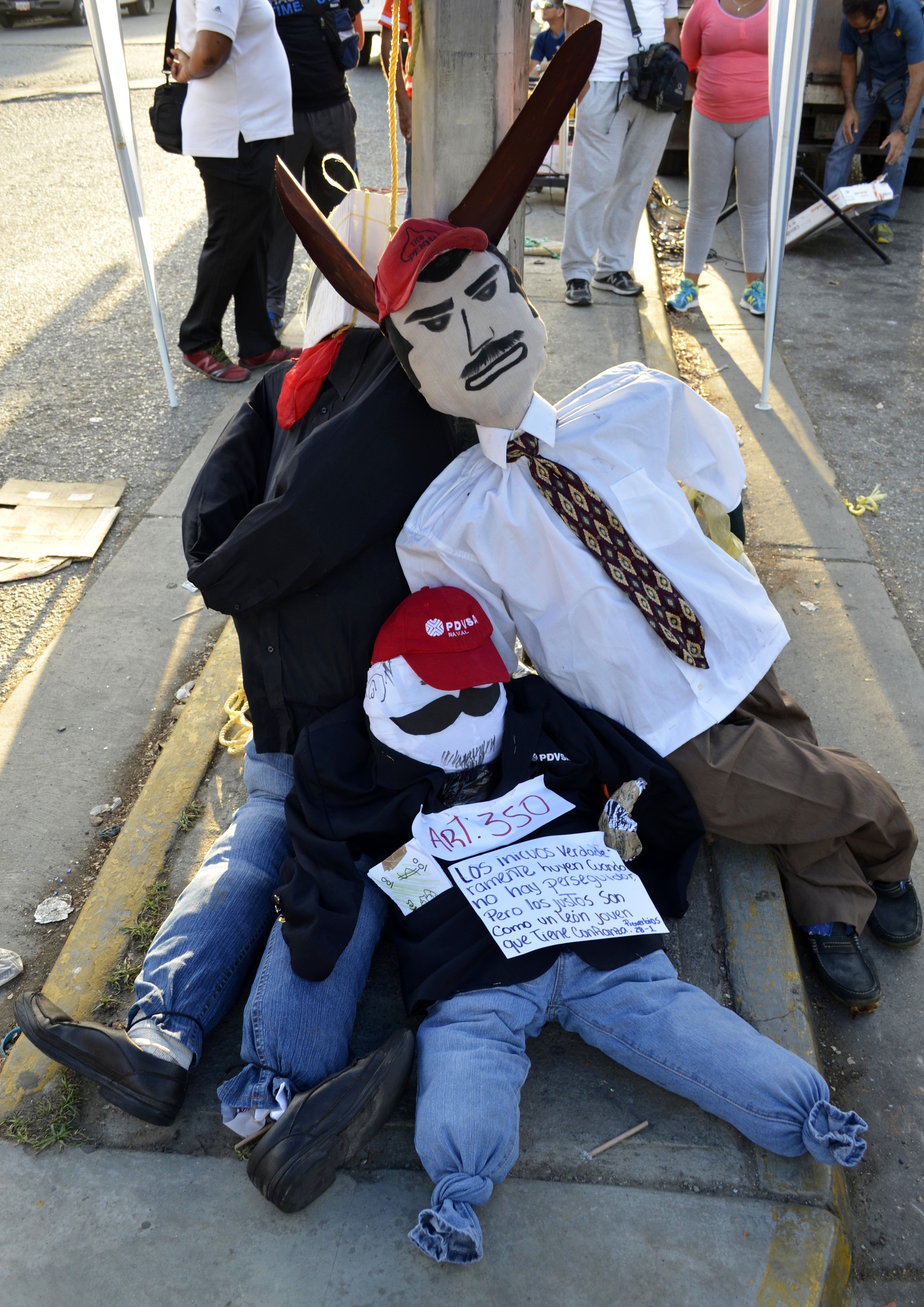 Effigies of Nicolas Maduro and others that were burnt during a Burning of Judas event in Venezuela.